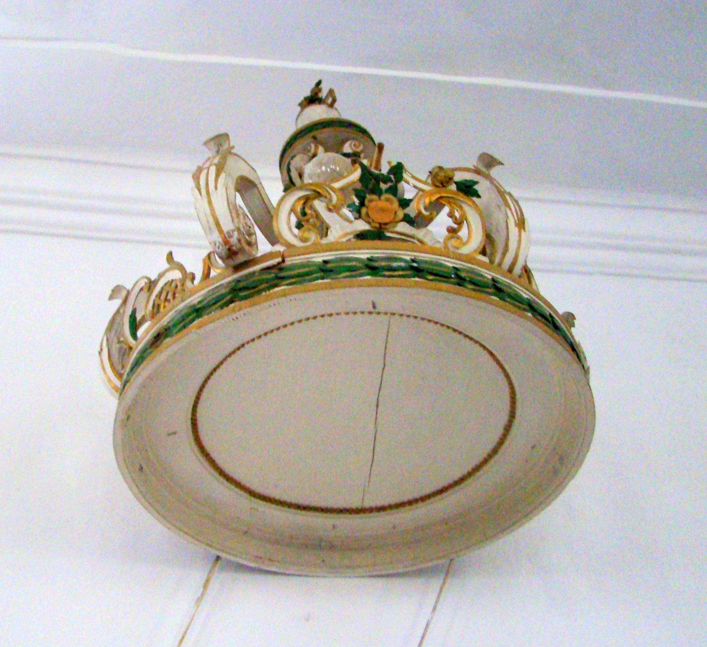 Reformed church in Zoltan, Covasna County, Romania